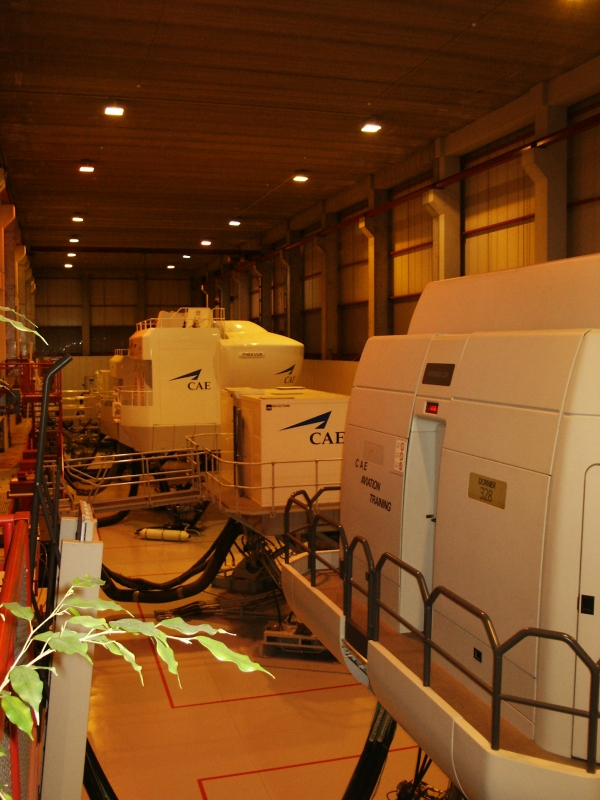 Full flight simulators at the CAE Brussels Training Centre, Brussels Airport, Brussels, Belgium.